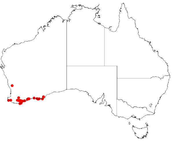 Desmocladus austrinus Occurrence data downloaded from Australasian Virtual Herbarium on 24 January 2019 using